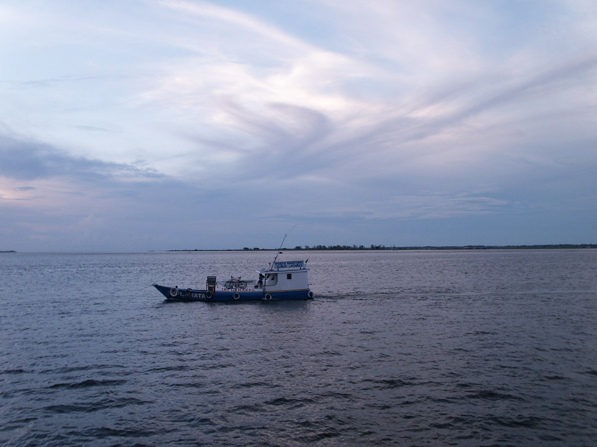 The Tapajos River in Santarem. 2005.